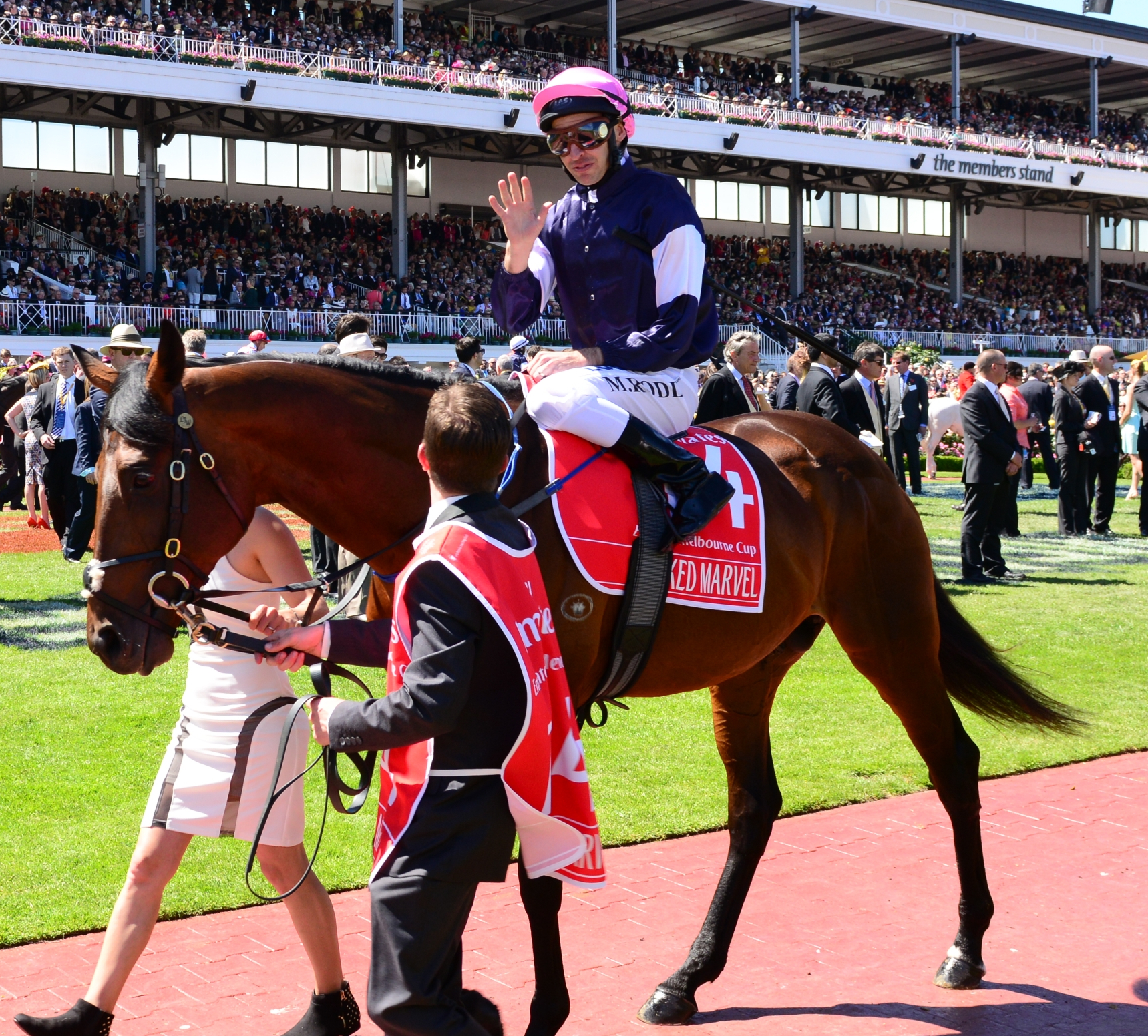 Masked Marvel, ridden by Michael Rodd, pictured prior to the w:2013 Melbourne Cup.